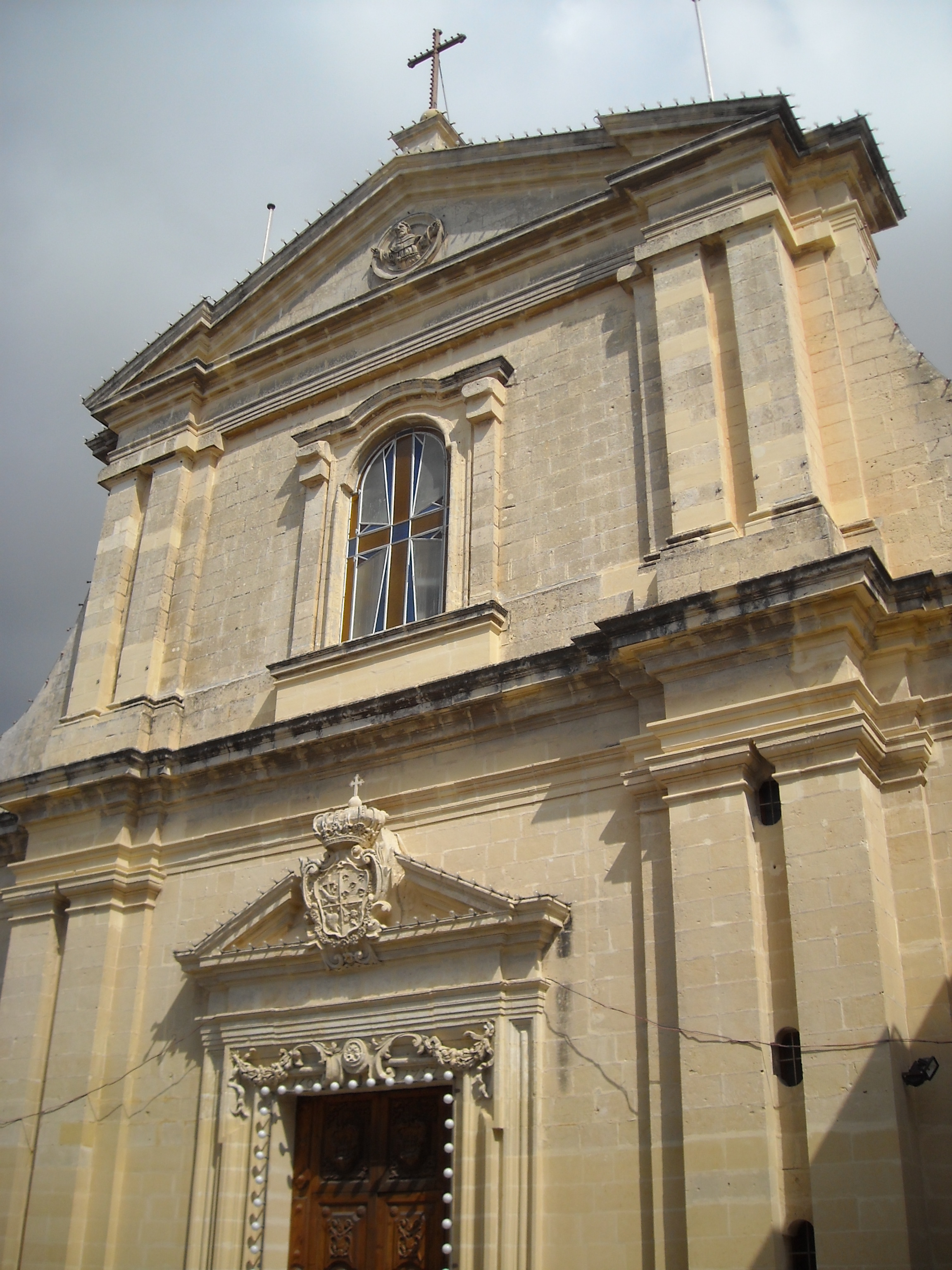 Church of the Nativity of Our Lady ta' Giezu, Rabat, Malta